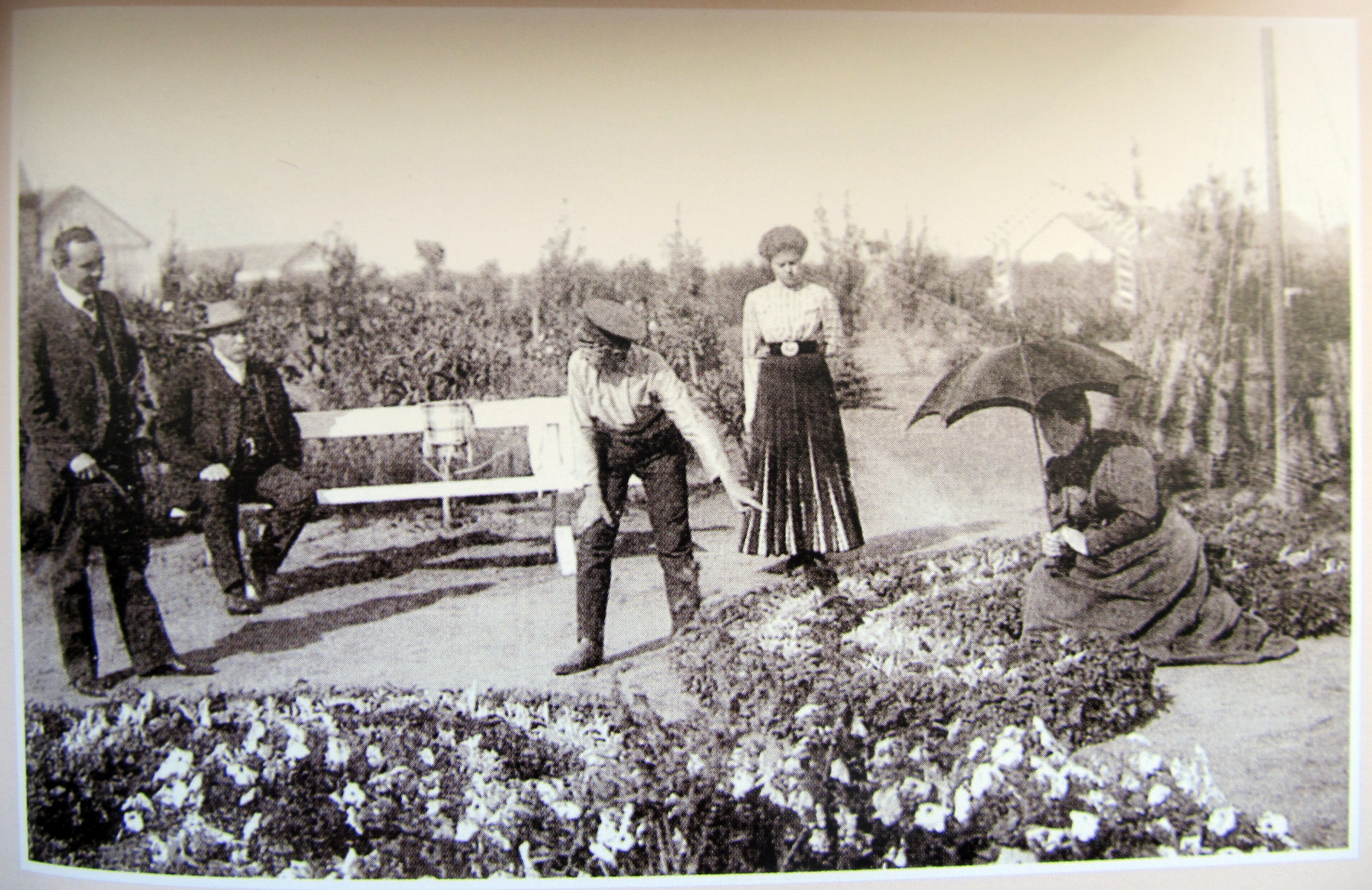 1909. Flower-garden in Prigorye (nowtime Luhove, Melitopolskyi Raion, Zaporizhia Oblast, Ukraine).